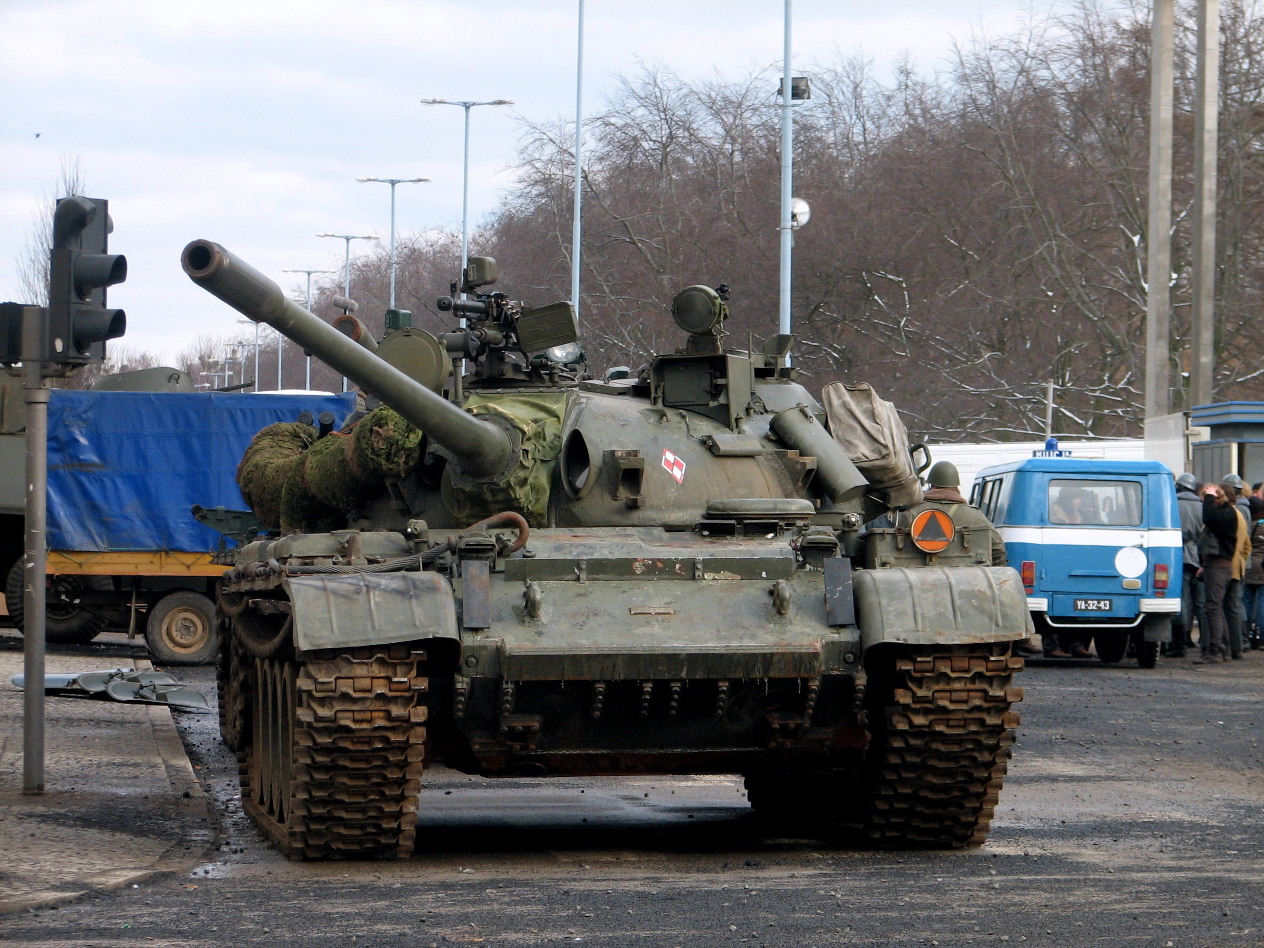 Filming of "Black Thursday" at intersection of ulica Świętojańska and Aleja Józefa Piłsudskiego in Gdynia. People on this picture are actors, extras, and film crew. "Black Thursday" is a film about Polish 1970 protests.